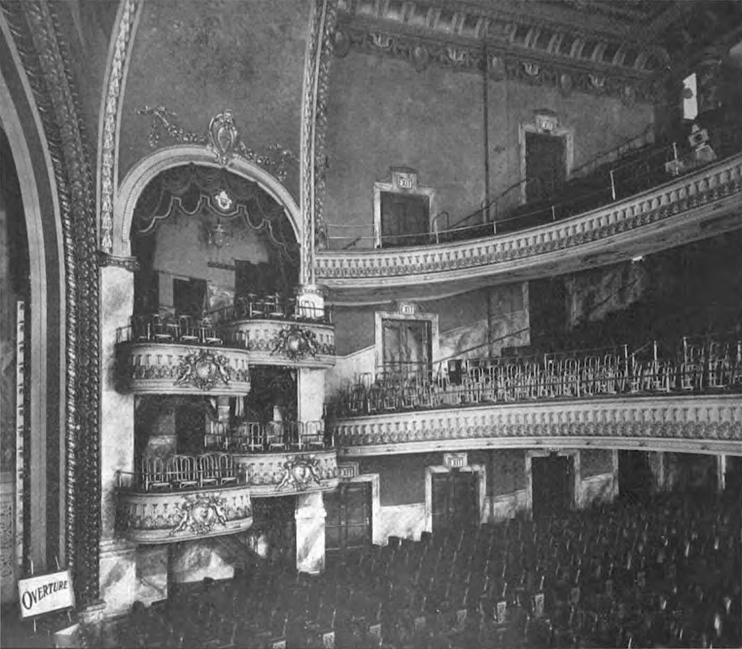 Caption reads: "The 86th Street Theatre, near 3rd Avenue, New York City"